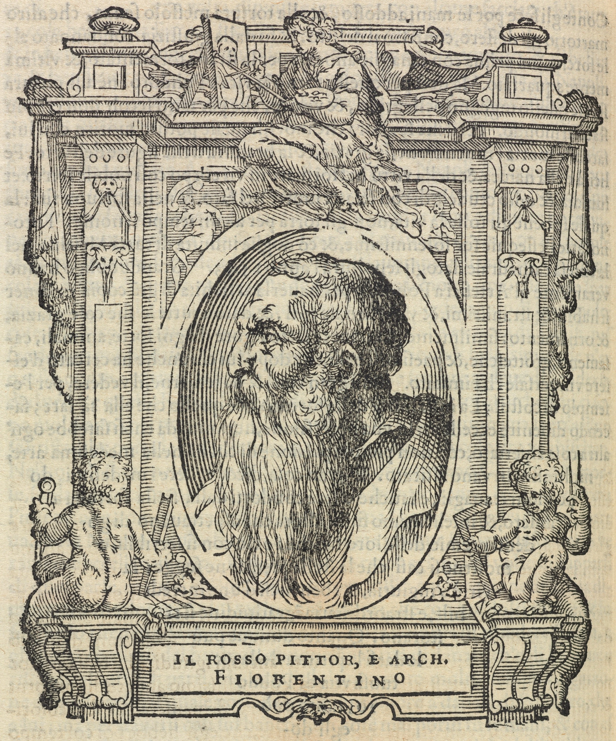 Plate of "Il Rosso", from Le vite de’ piv eccellenti pittori, scvltori, e architettori (Fiorenza: Appresso i Giunti, 1568), by Giorgio Vasari (1511-1574). Typ 525 68.864, Houghton Library, Harvard University